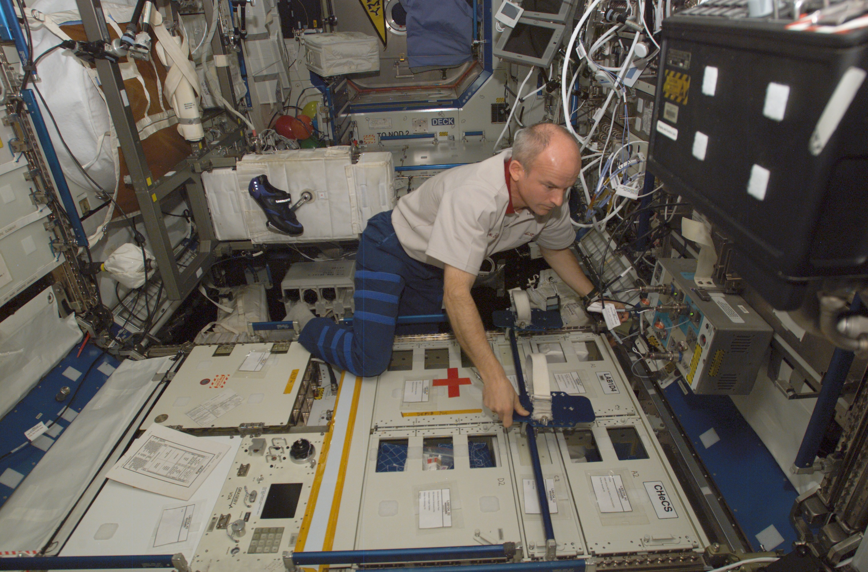 Astronaut Jeffrey N. Williams, Expedition 13 NASA space station science officer and flight engineer, deactivates the Crew Health Care System (CHeCS) rack in the Destiny laboratory of the International Space Station.